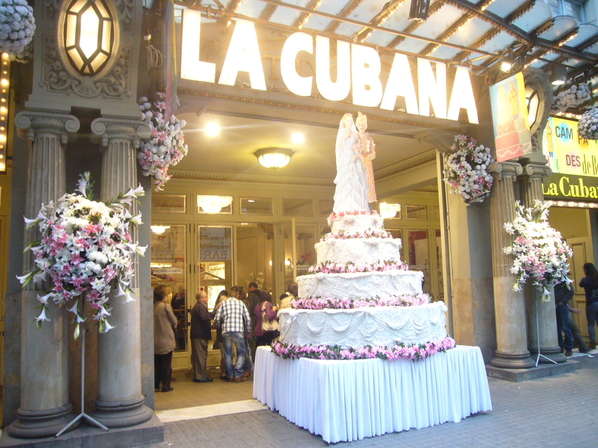 La Cubana "Campanades de boda" outside the Tivoli theather in Barcelona